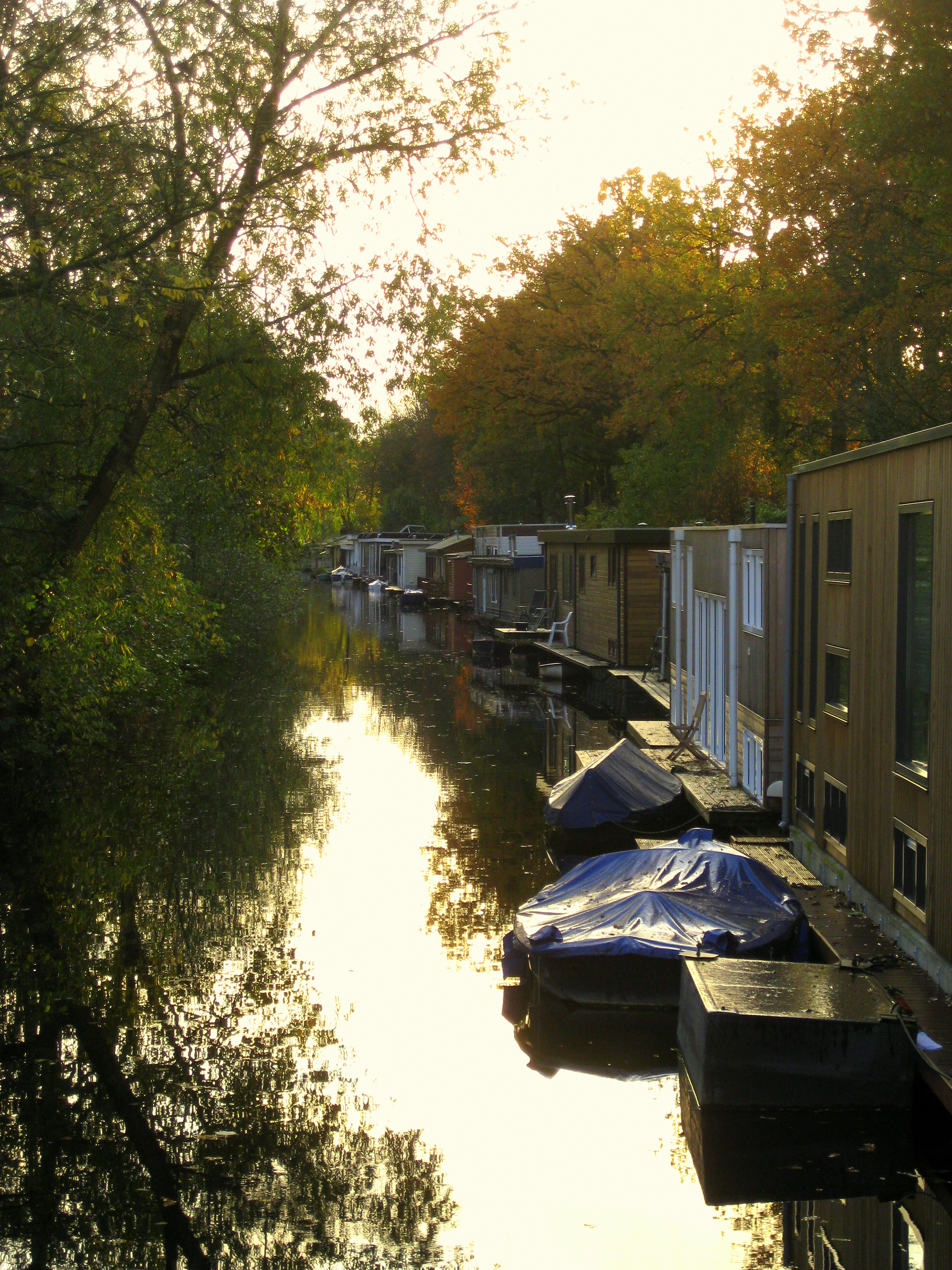 The Leidse Rijn near Oog in Al, Utrecht